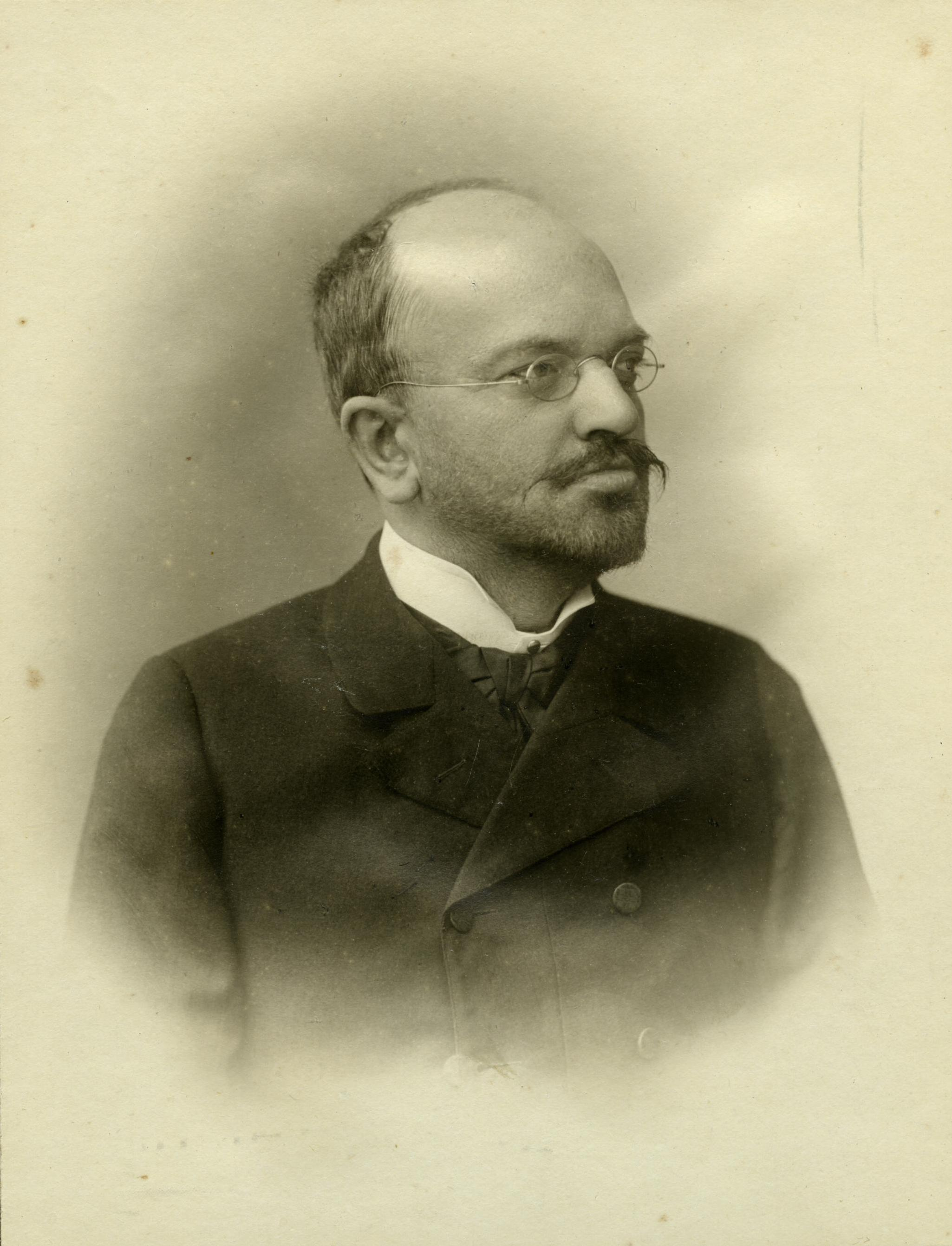 Vladimir Tšiž